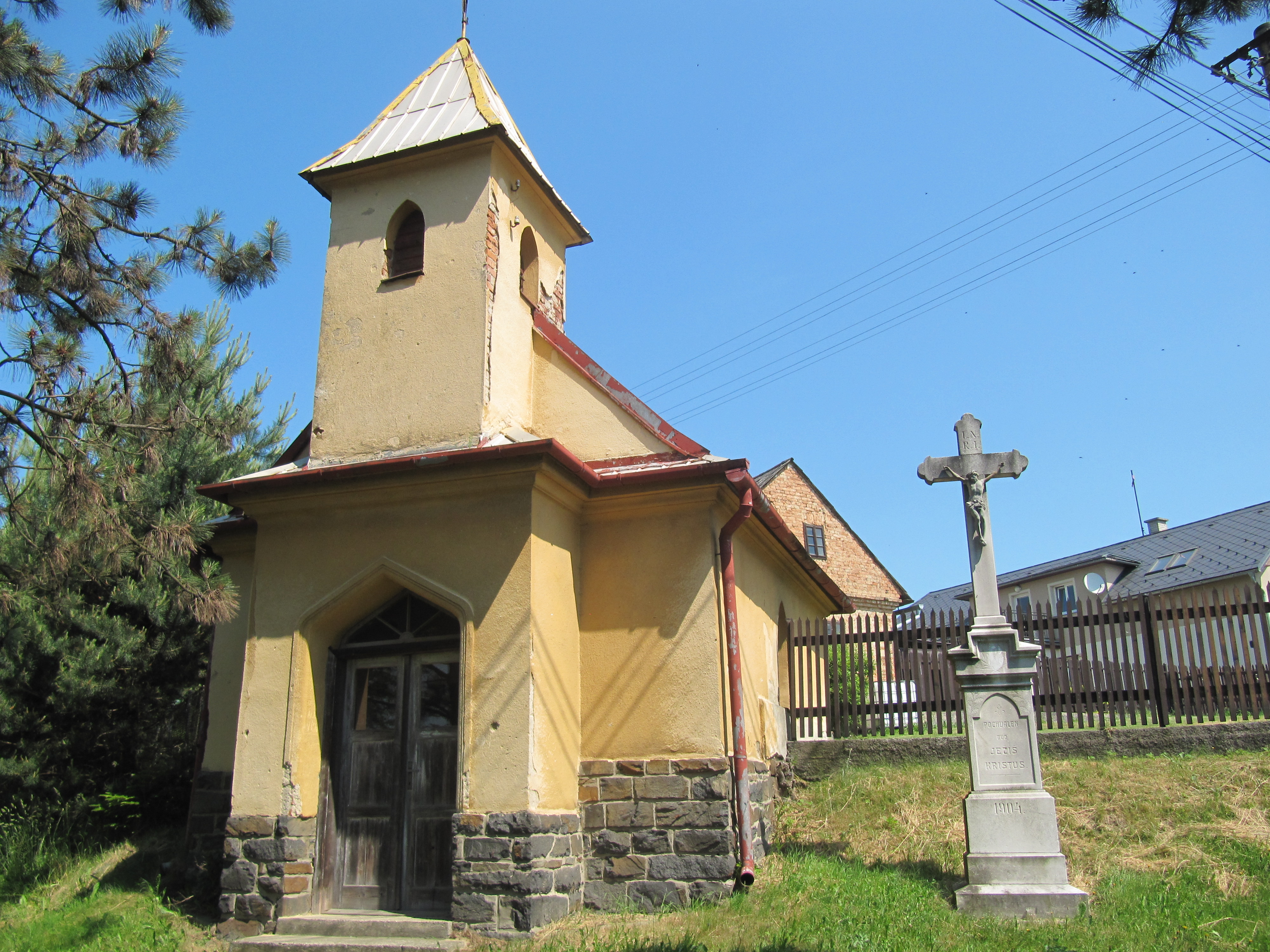 Březová, Opava District, Czech Republic, part Leskovec.